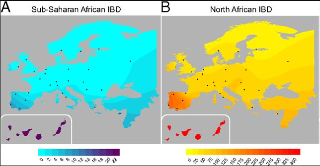 Map illustrating the extent and pattern of recent gene flow between European and African populations using SNP data from seven North African populations, together with data from 30 European populations, two European Jewish populations, one Near Eastern population (29), and HapMap3 Sub-Saharan African populations. Allele frequencies are used to estimate North African ancestry proportions in European populations. To quantify the variance in ancestry in European populations and obtain bounds on the time since admixture, a quantitative model is used for the decrease in ancestry variance with the time since admixture. Gene flow between populations is also detected by analyzing long haplotypes shared identically by descent (IBD) with high-density SNP genotyping data. A significant latitudinal gradient of North African ancestry within Europe characterized by a dramatic difference between the Iberian Peninsula and the neighboring regions.